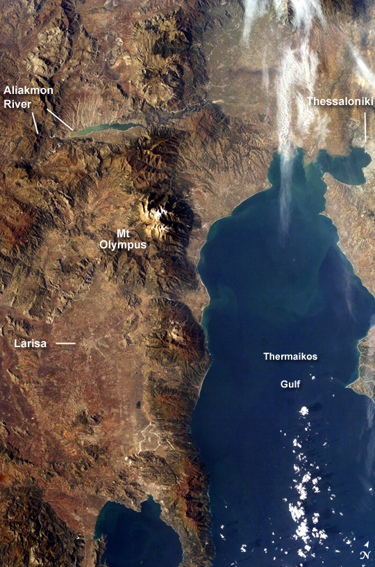 Thermaic Gulf annontated.